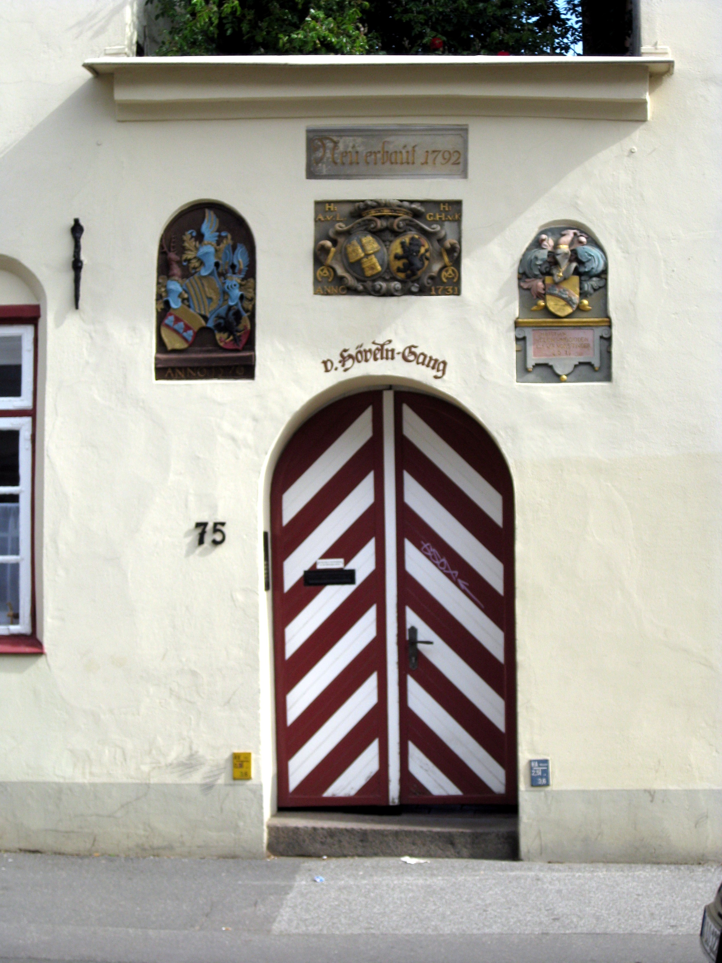 Entrance to the von Hoeveln Courtyard Wahmstraße 75 in Lübeck.